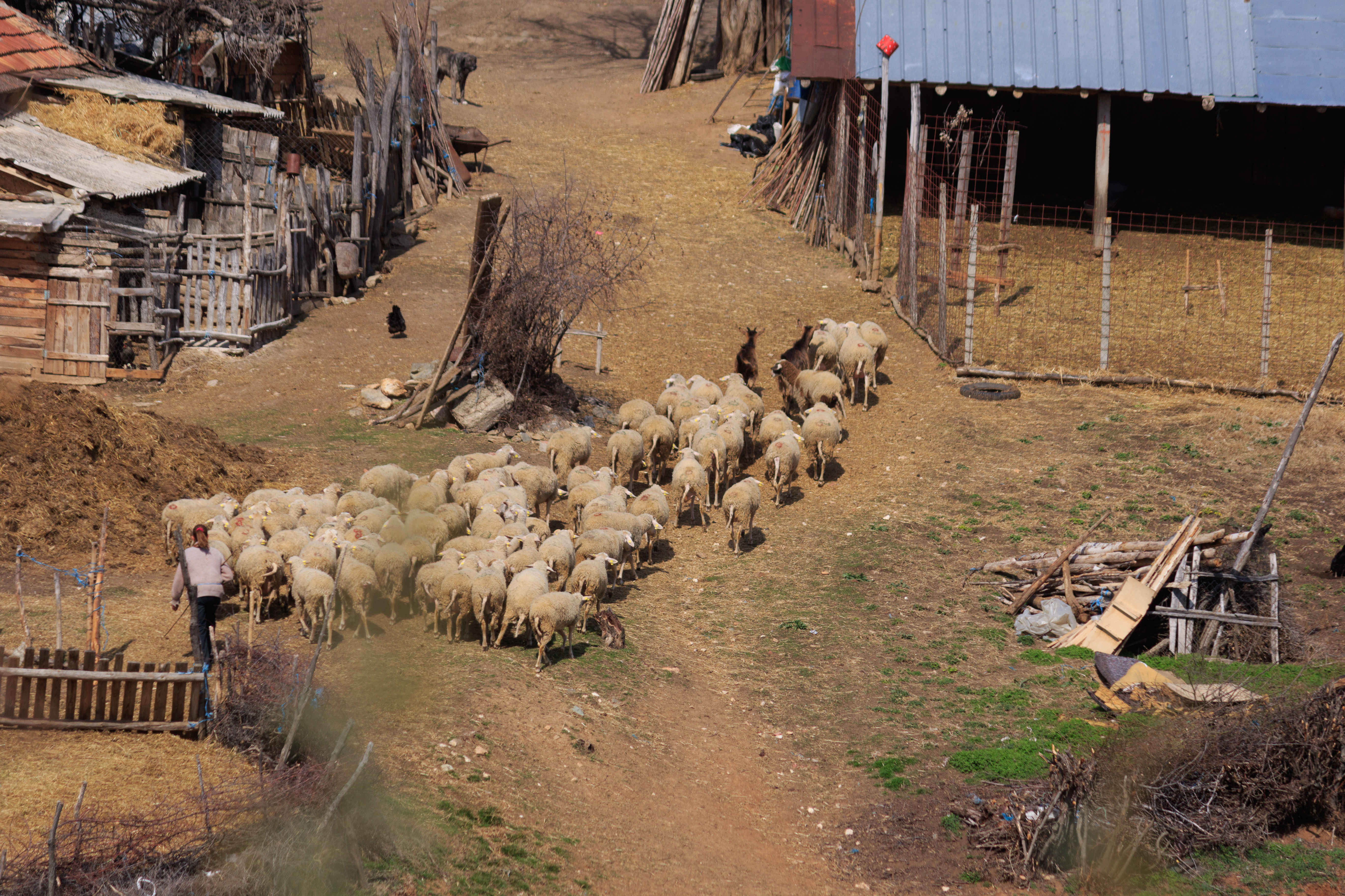 Sheep in the village Karlovce